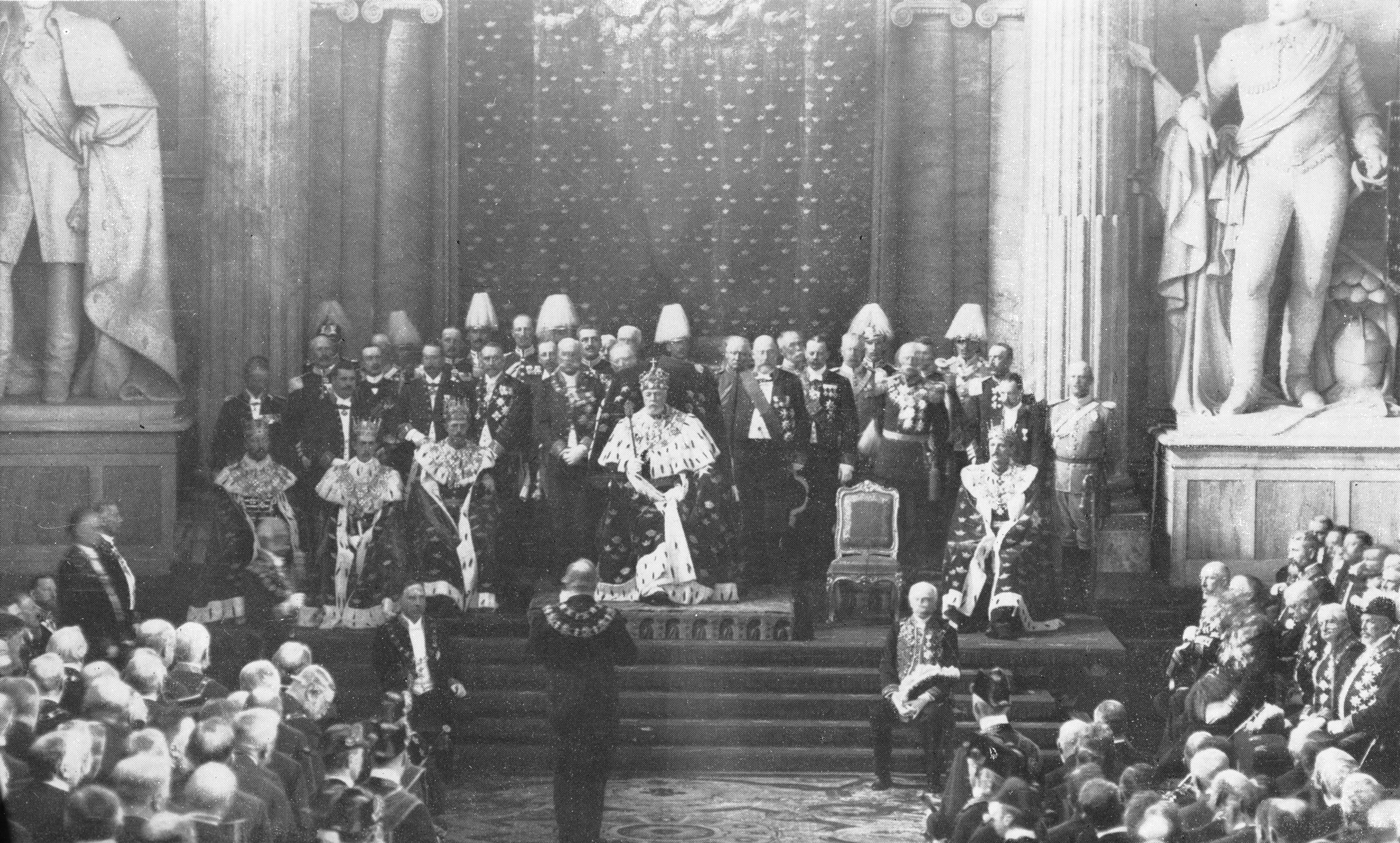 Opening of the extraordinary session of the Swedish parliament in the royal palace on June 21, 1905.